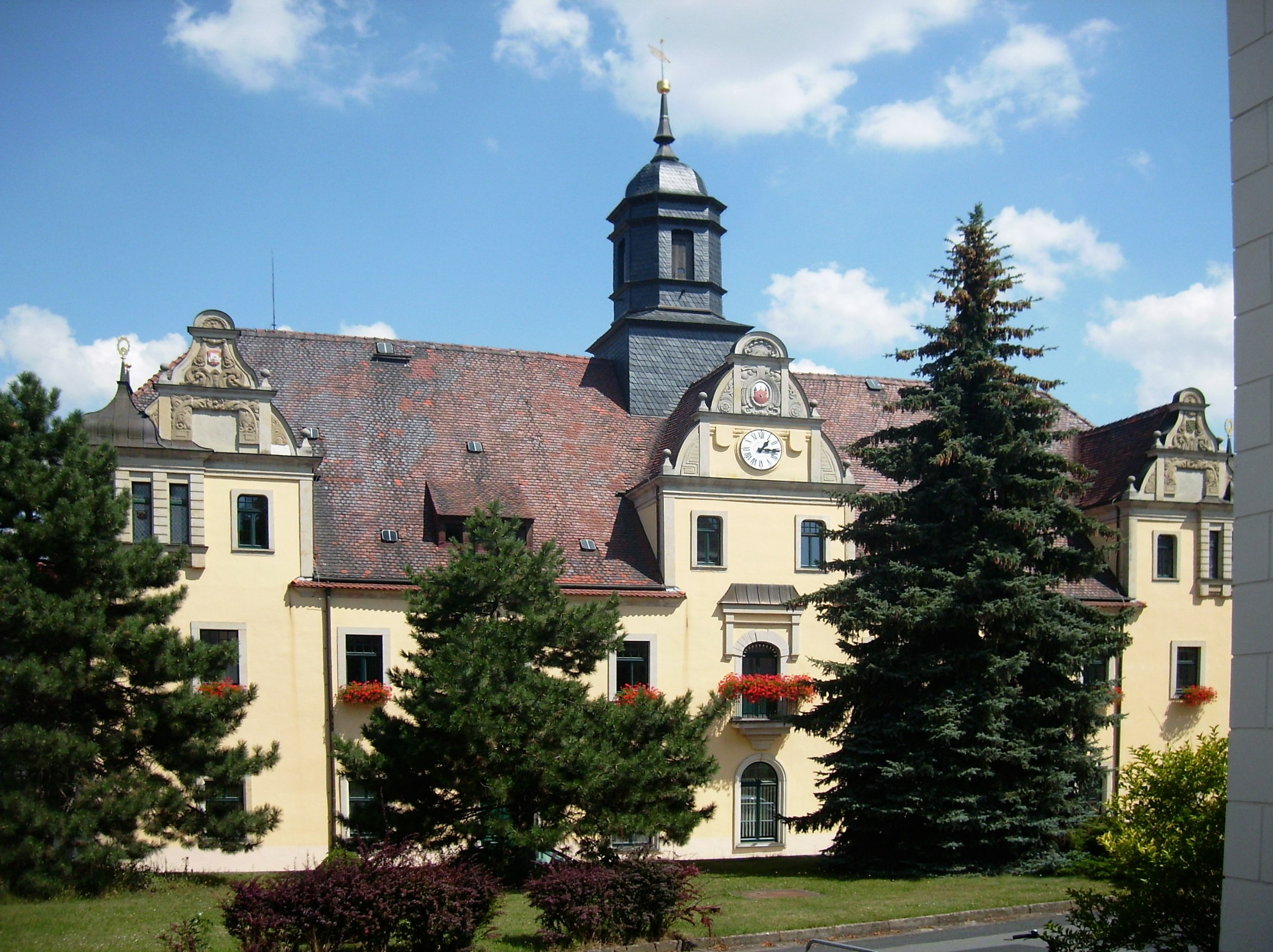 Town hall in Lommatzsch (Meissen district, Saxony)